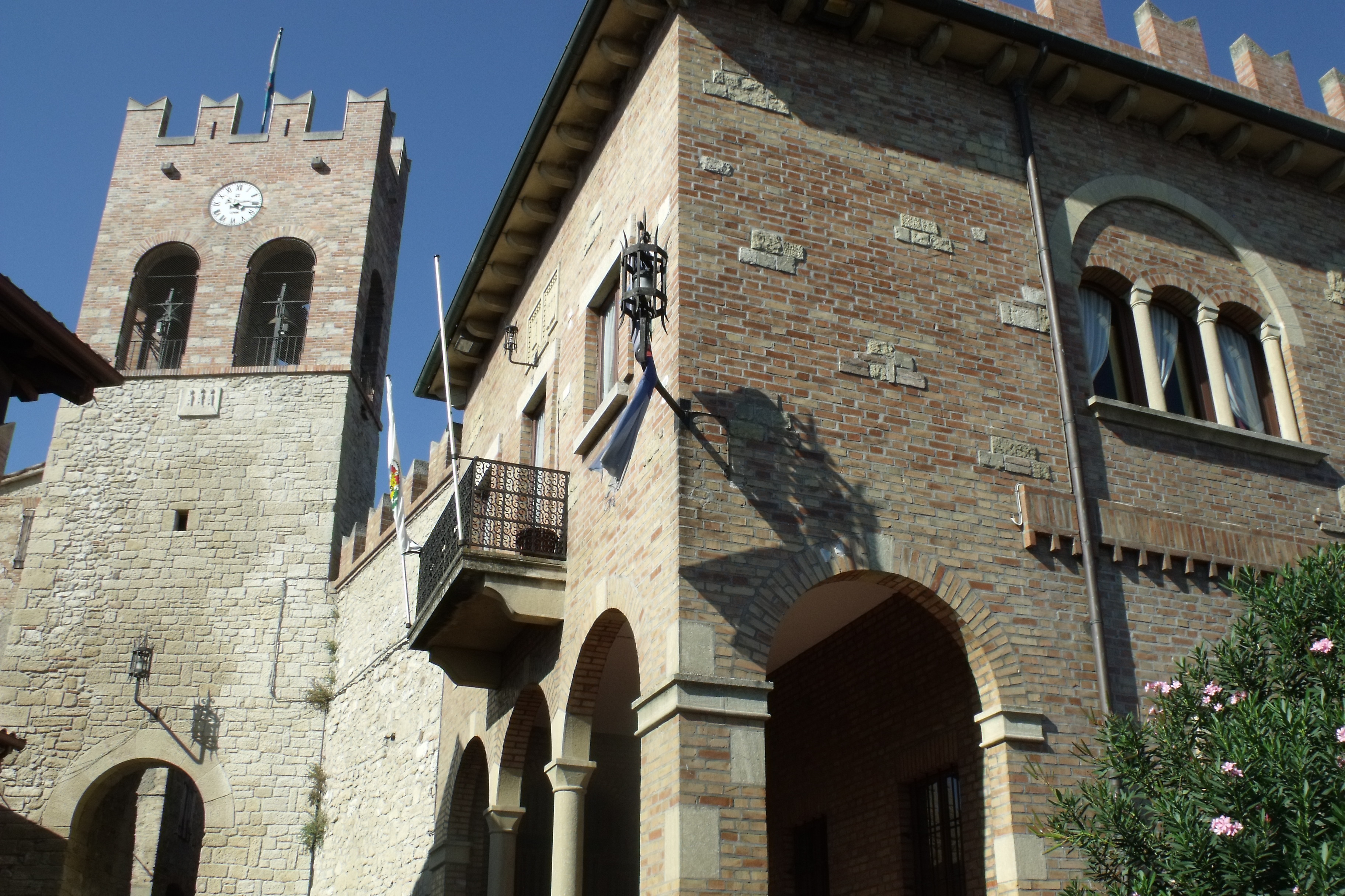 The castle in Serravalle in San Marino (Castello dei Malatesta)